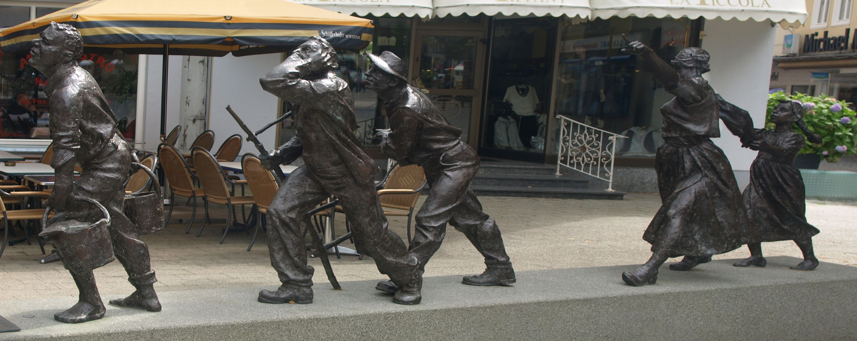 The figure group called Mückenstürmer from 2003 on teh Linggplatz in Bad Hersfeld. It refers to the Joking relationship, based on an occurrence in summer 1674. The translation of Mückenstürmer means something like "attacker of midges"